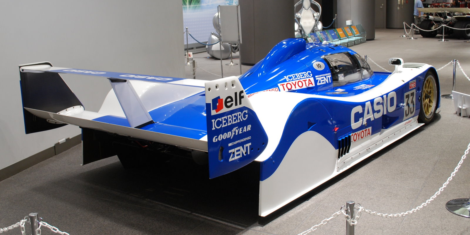 Toyota TS010